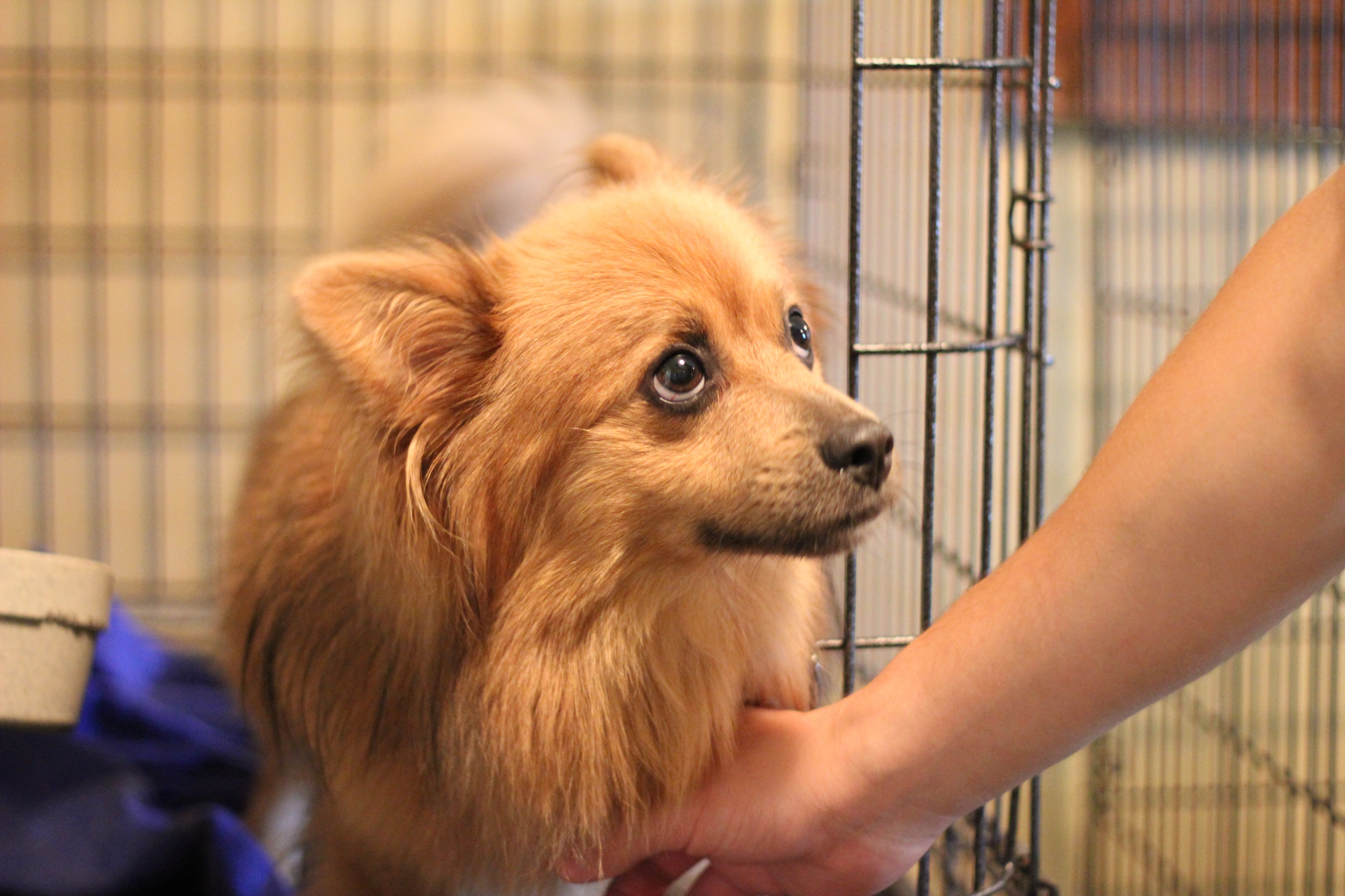 Ransom putting on his 'please adopt me face'